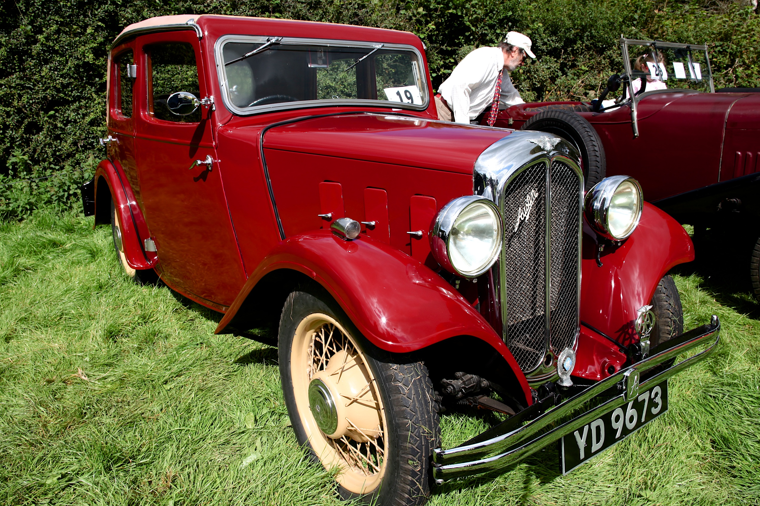 Austin Ten Gordon Moth 1934 (DVLA) first registered 10 May 1934, 1141cc "Bodywork by Gordon & Co. of Sparkbrook, Birmingham on the Austin 10 Sports chassis; cf. . They appear also to have offered a "Pixie" saloon on the standard 10 chassis."